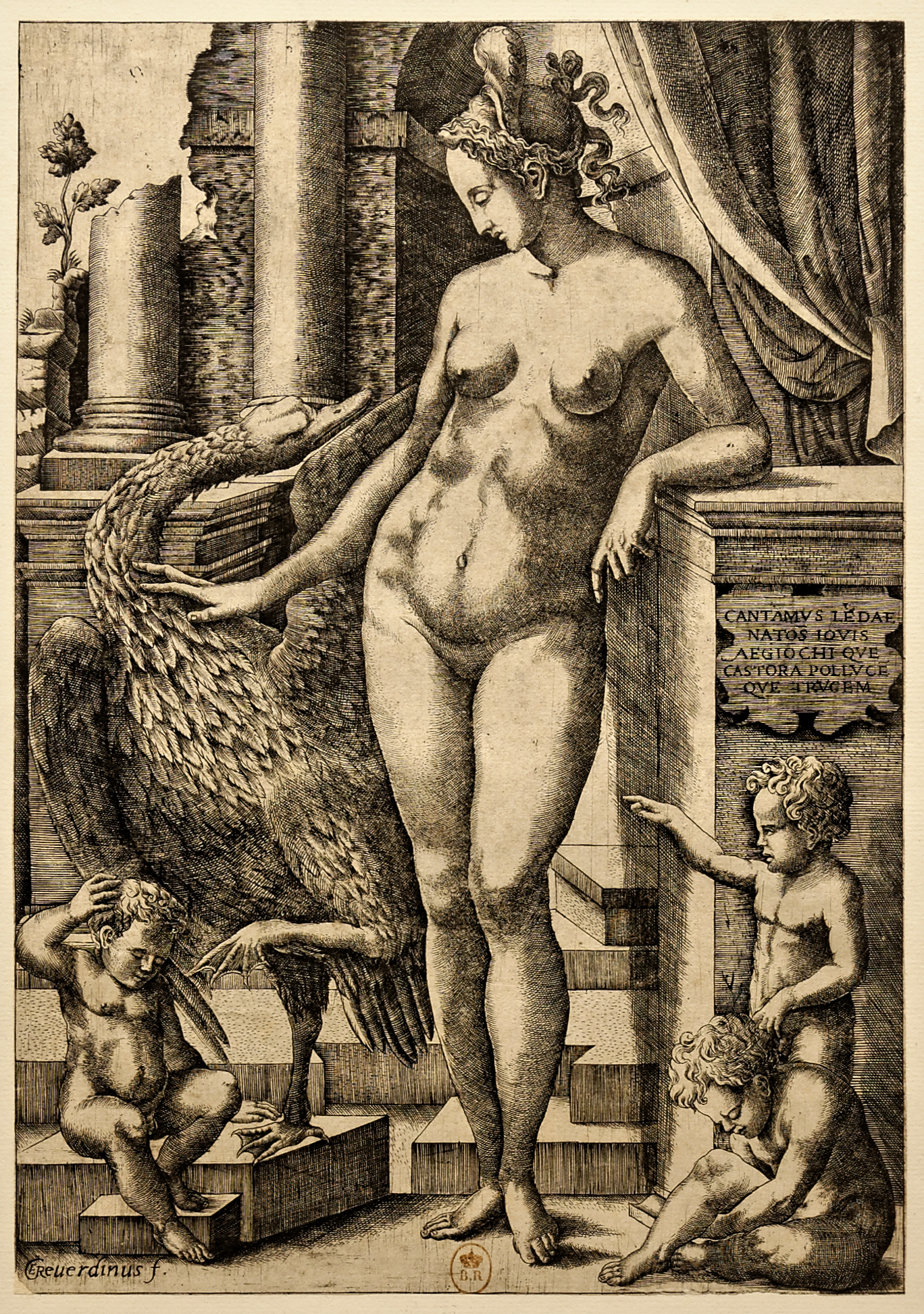 Leda standing by the swan, drawn by Georges Reverdy (? - 1564/1565 Lyon). Bibliothèque nationale de France, Paris